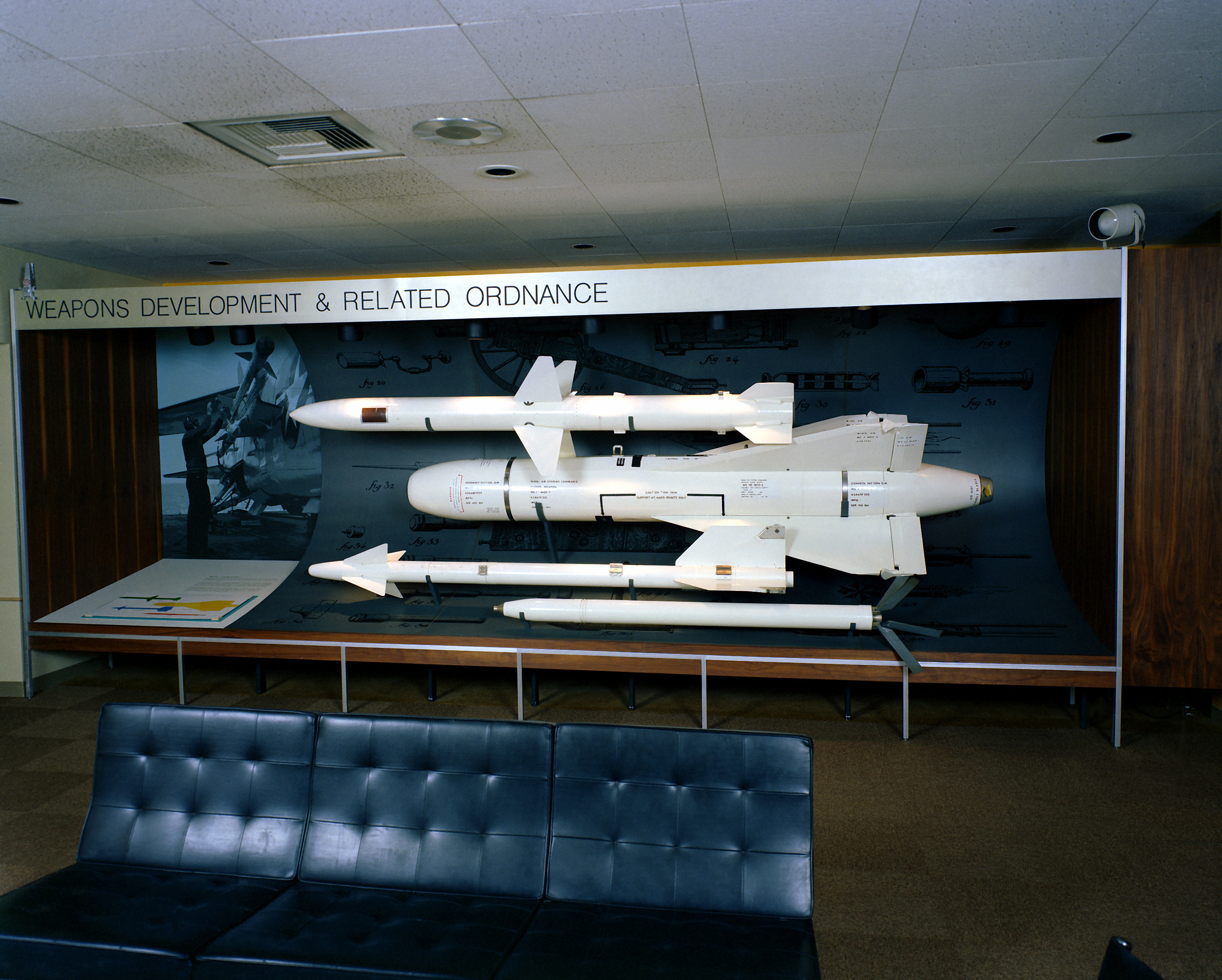 A view of the lobby exhibit at the Michelson Laboratory. The weapons, displayed under the title of Weapons Development and Related Ordnance are (top to bottom) a Shrike, Walleye, Sidewinder and Zuni missile. Location: NAV WEAPONS CENTER, CHINA LAKE, CALIFORNIA (CA) UNITED STATES OF AMERICA (USA)